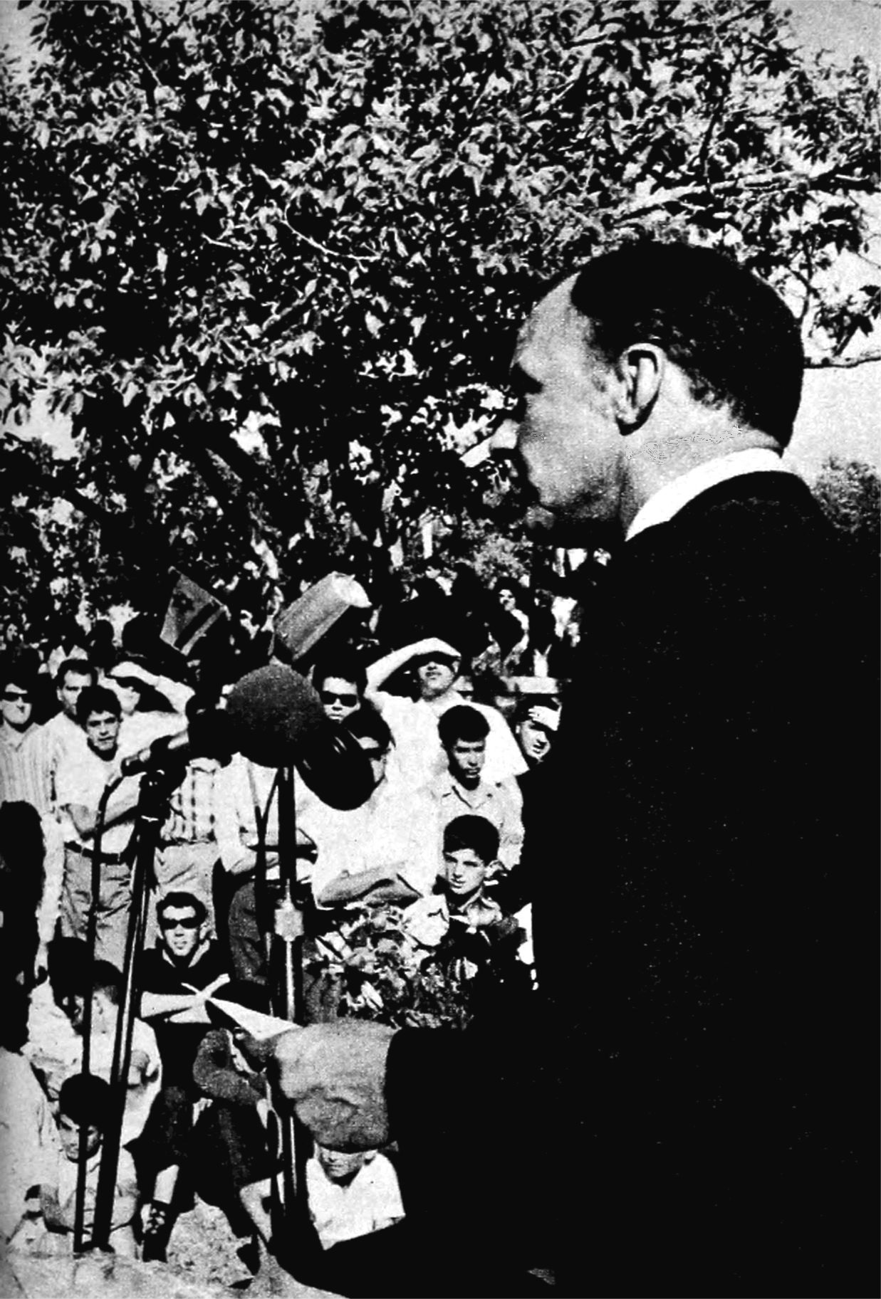 Photo of Frank Sinatra speaking to local children as he prepared to launch the Sinatra Centre for children in Nazareth.